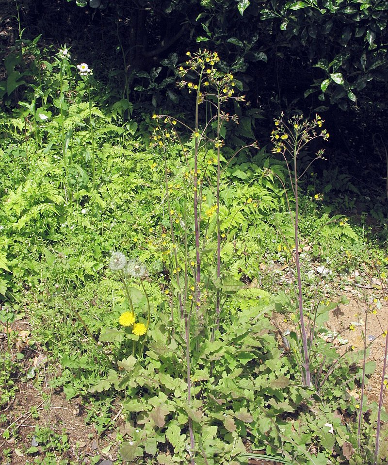 Photograph of Youngja japonica,taken in Machida city, Tokyo, Japan.